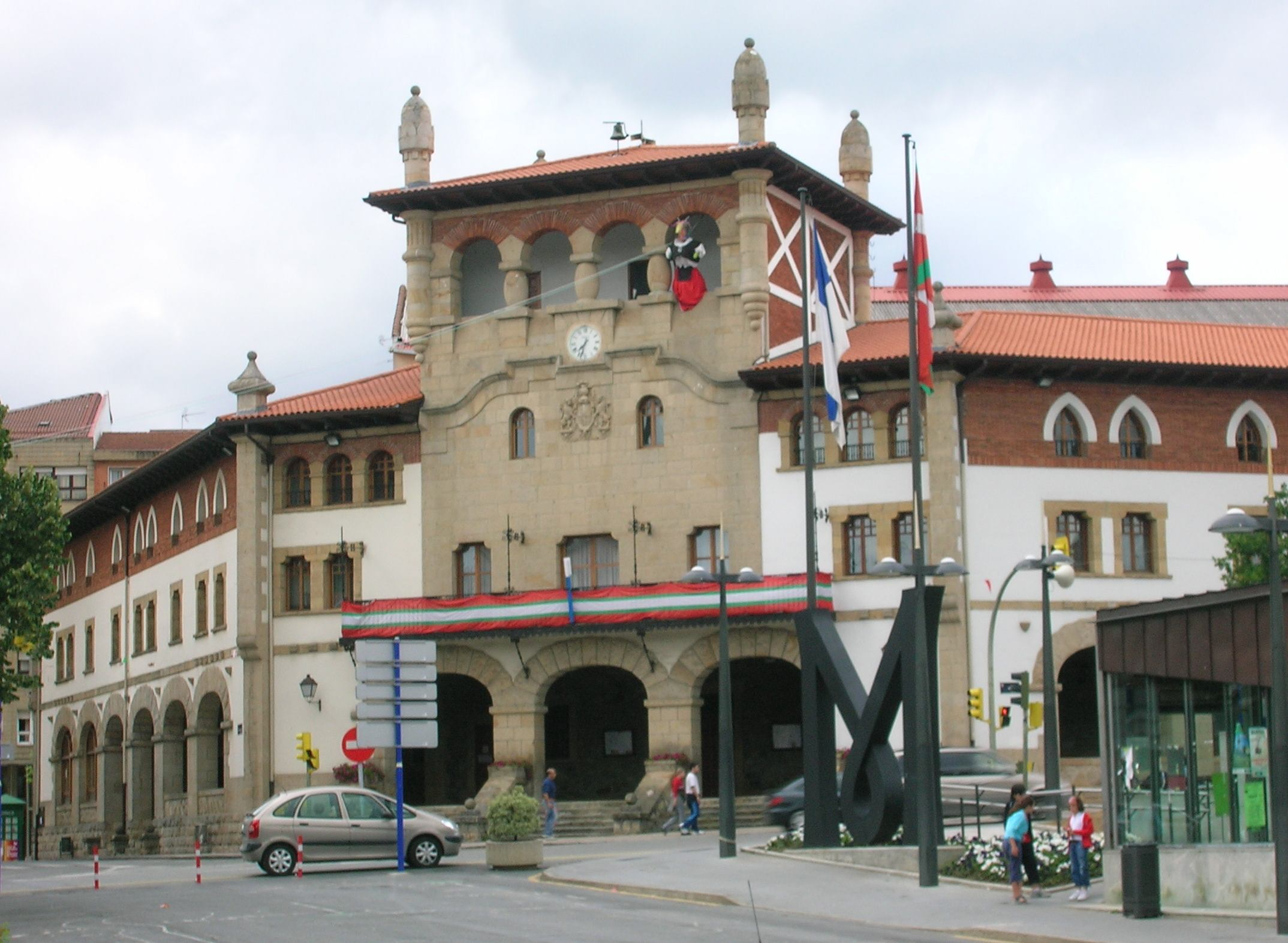 Town hall of Mungia